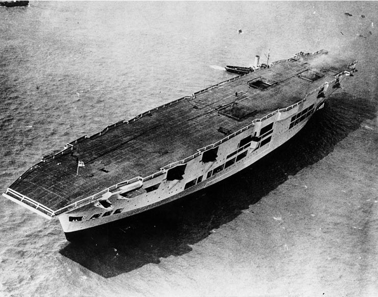 HMS Ark Royal (British Aircraft Carrier, 1938-1941) photographed immediately after launching, which took place on 13 April 1937.